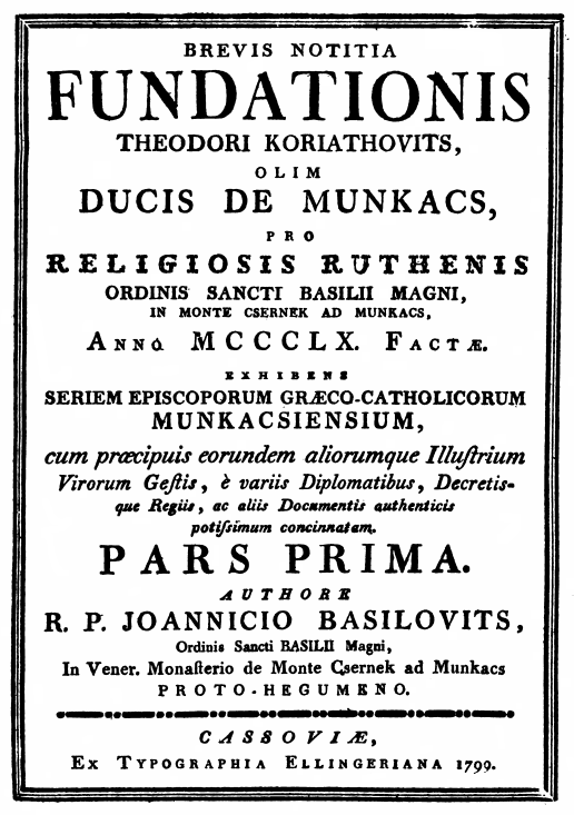 Title page of Basilovits' book: Brief note on foundation by Theodor Koriathovits, former Prince of Munkacs, made in 1360, for religious Rusyn Order of Saint Basil the Great on Csernek Hill near Munkacs.